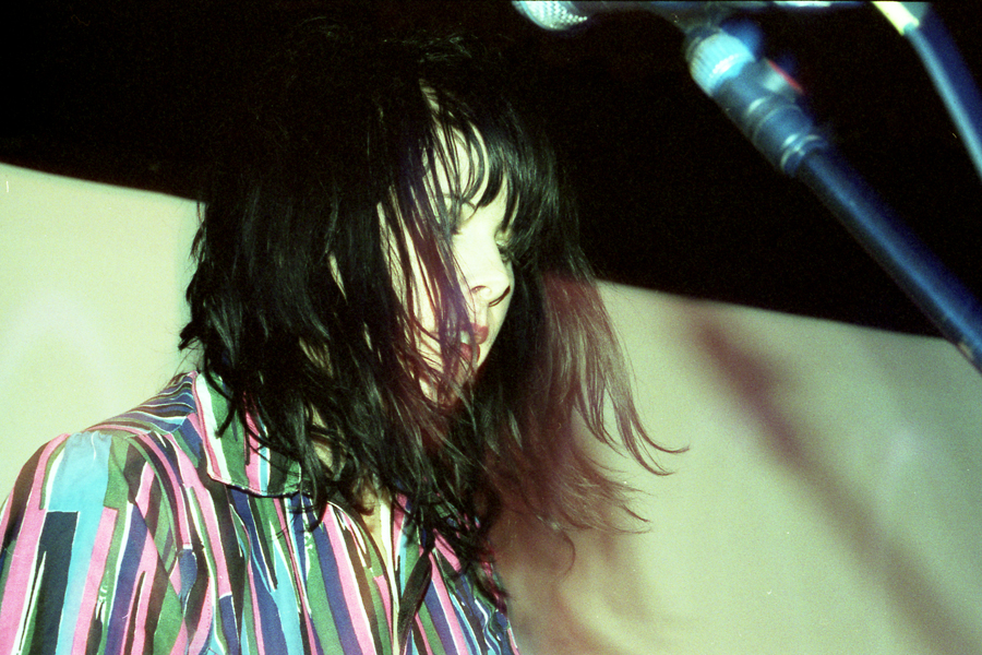 Le Tigre band member Johanna Fateman performing live